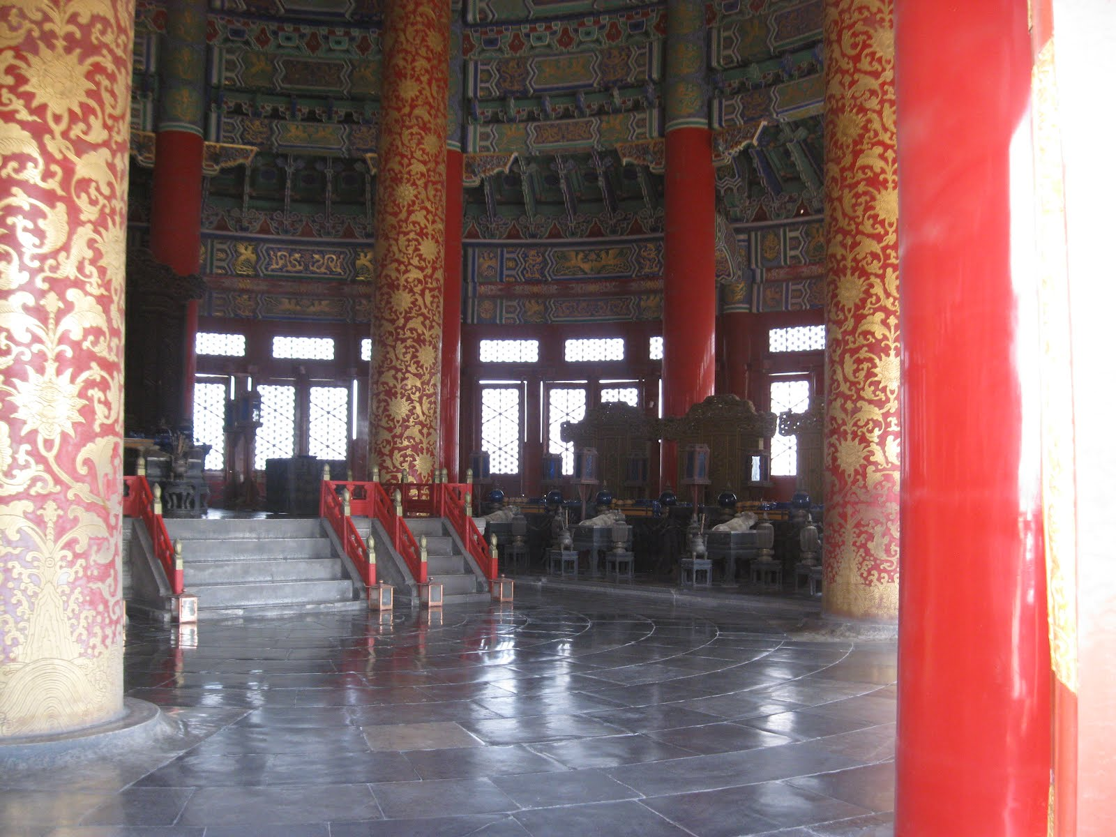 Temple of Heaven